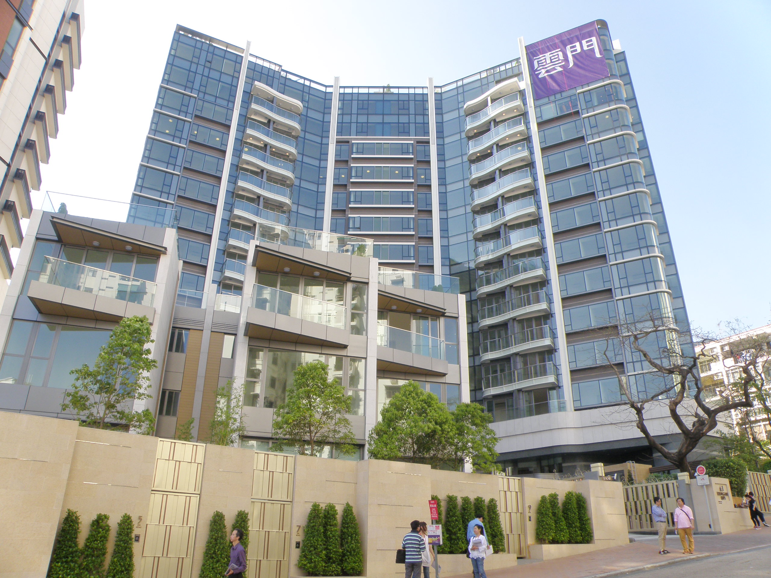 Eden Gate in Kowloon Tong, Hong Kong.